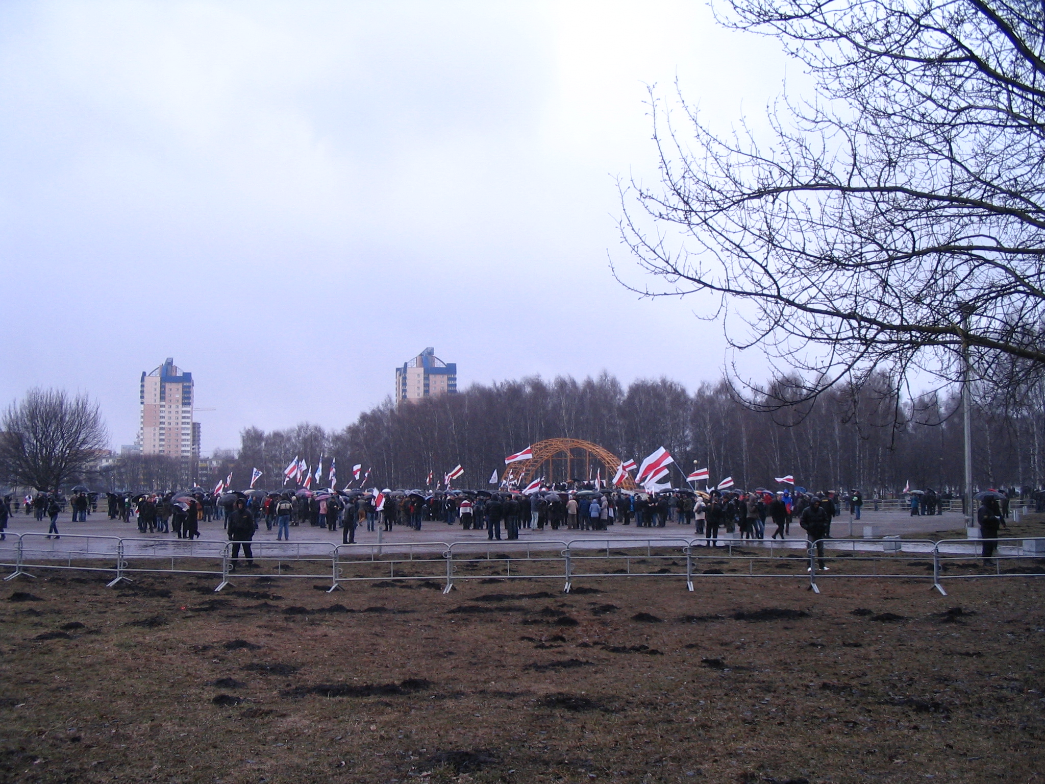 Freedom Day (Belarus, 2012)